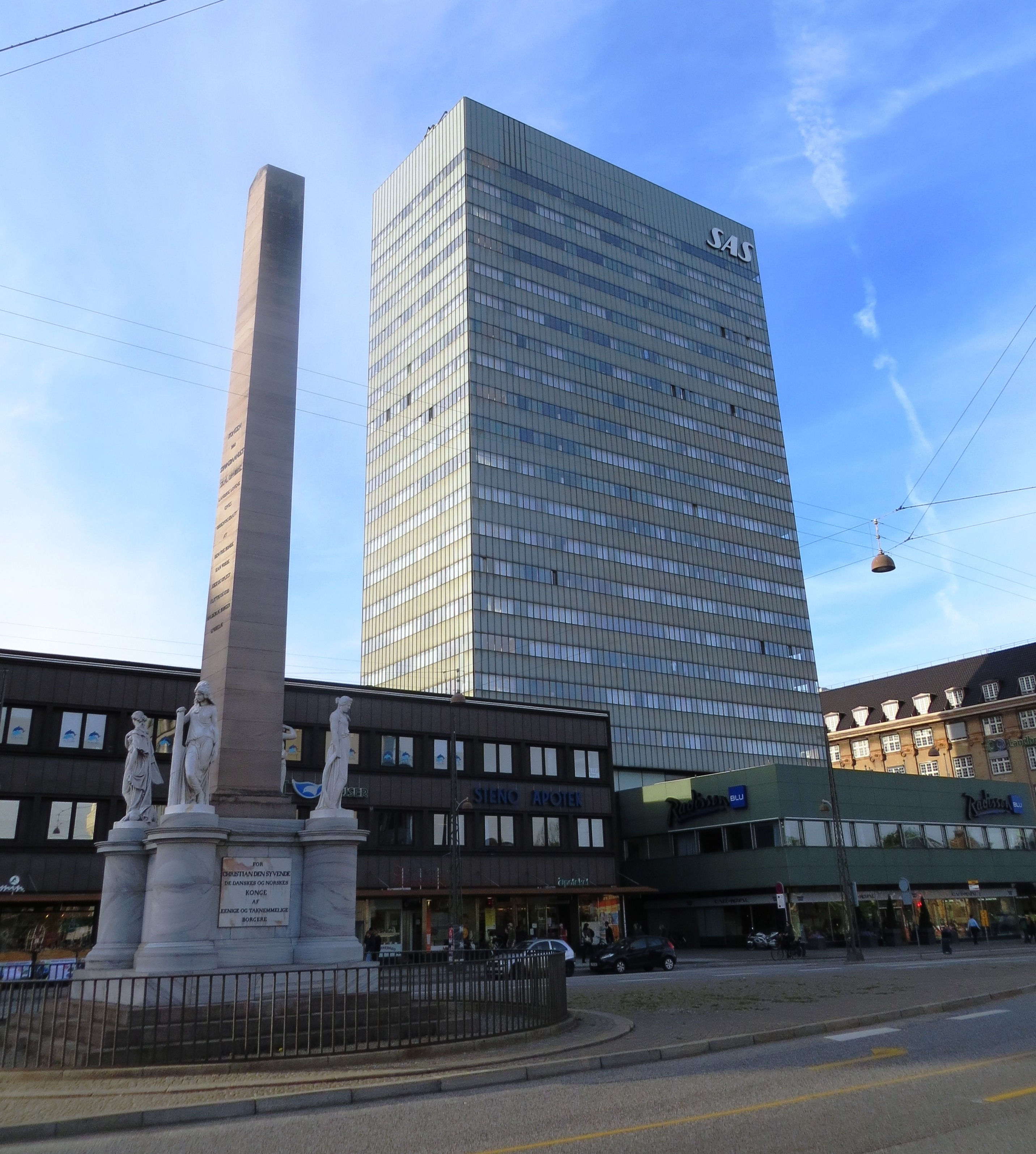 Image from Copenhagen, the capital of Denmark. This is the SAS hotel